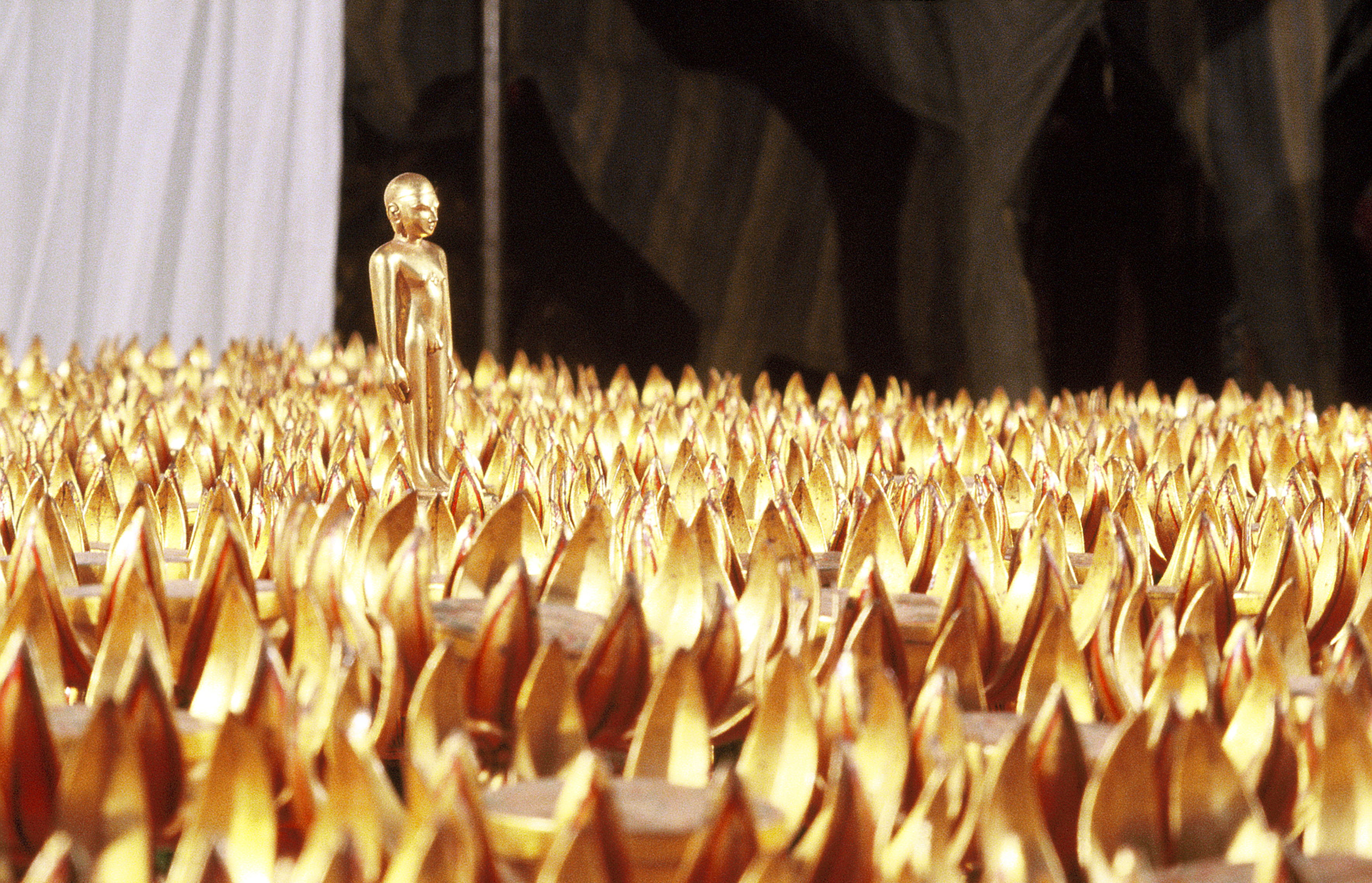 Lord Risbabhdev moving over golden lotus after attaining Omniscience